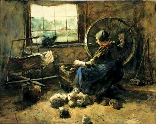 Emma Lampert Cooper, The Breadwinner (1891), Memorial Art Gallery, University of Rochester, Rochester, New York.[1]One of 2 works Cooper exhibited at the 1893 World's Columbian Exposition in Chicago, which earned her a medal.